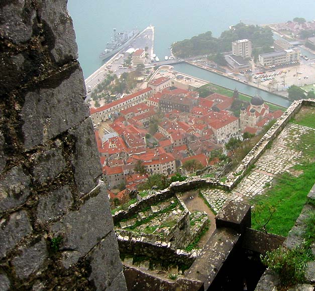 Featured on the Pop Culture Travel Guide, Jaunted